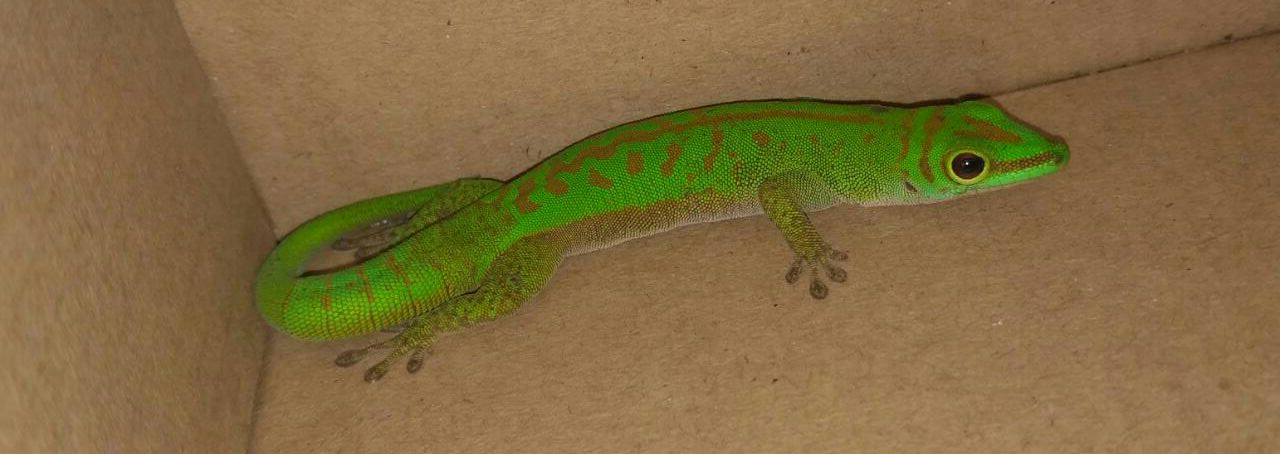 Phelsuma astriata showing bright green colouration as is normally visible in daylight. Praslin, Seychelles. Photo taken by Cheryl Allen.